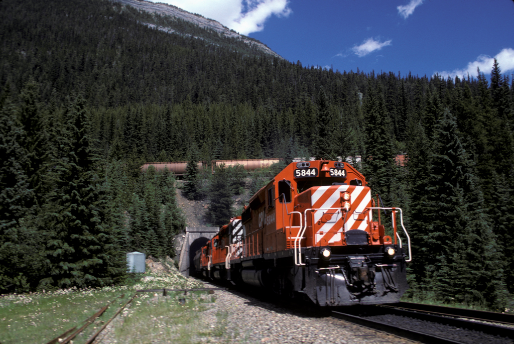 A Canadian Pacific Railway locomotive exiting the Lower Spiral Tunnel. The spirals are about 1100 feet in diameter and trains over 85 cars pass over themselves, as shown here.